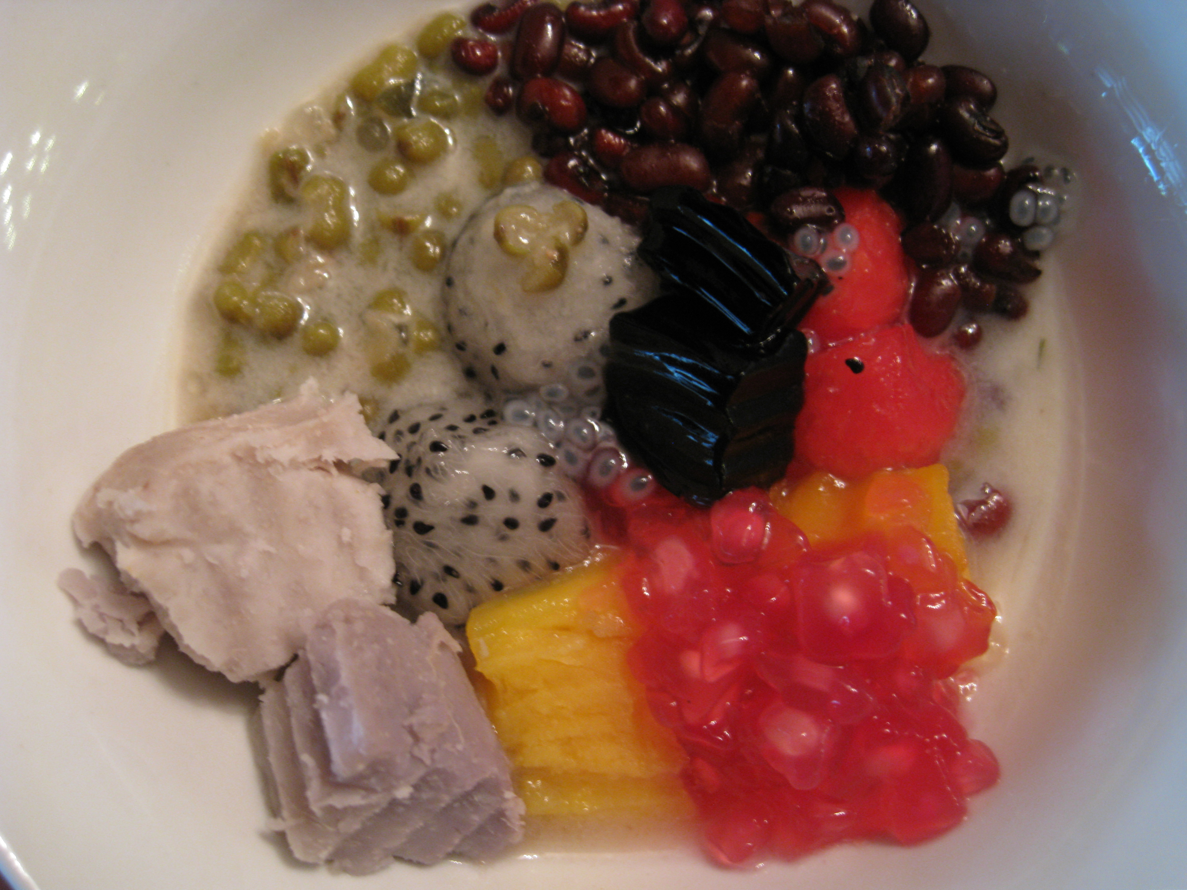 Miscellaneous desserts from Vietnam.